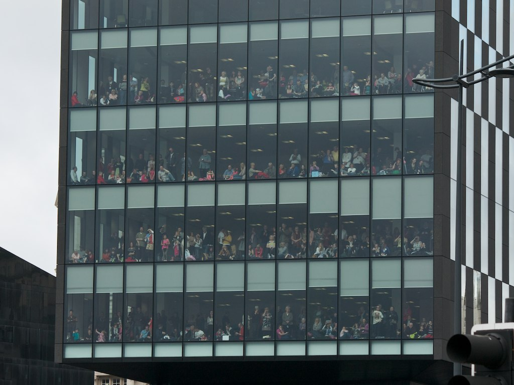 Spectators inside Mann Island Building 3 during the street theatre event 'Sea Odyssey: Giant Spectacular', which took place in Liverpool, England during mid-April 2012